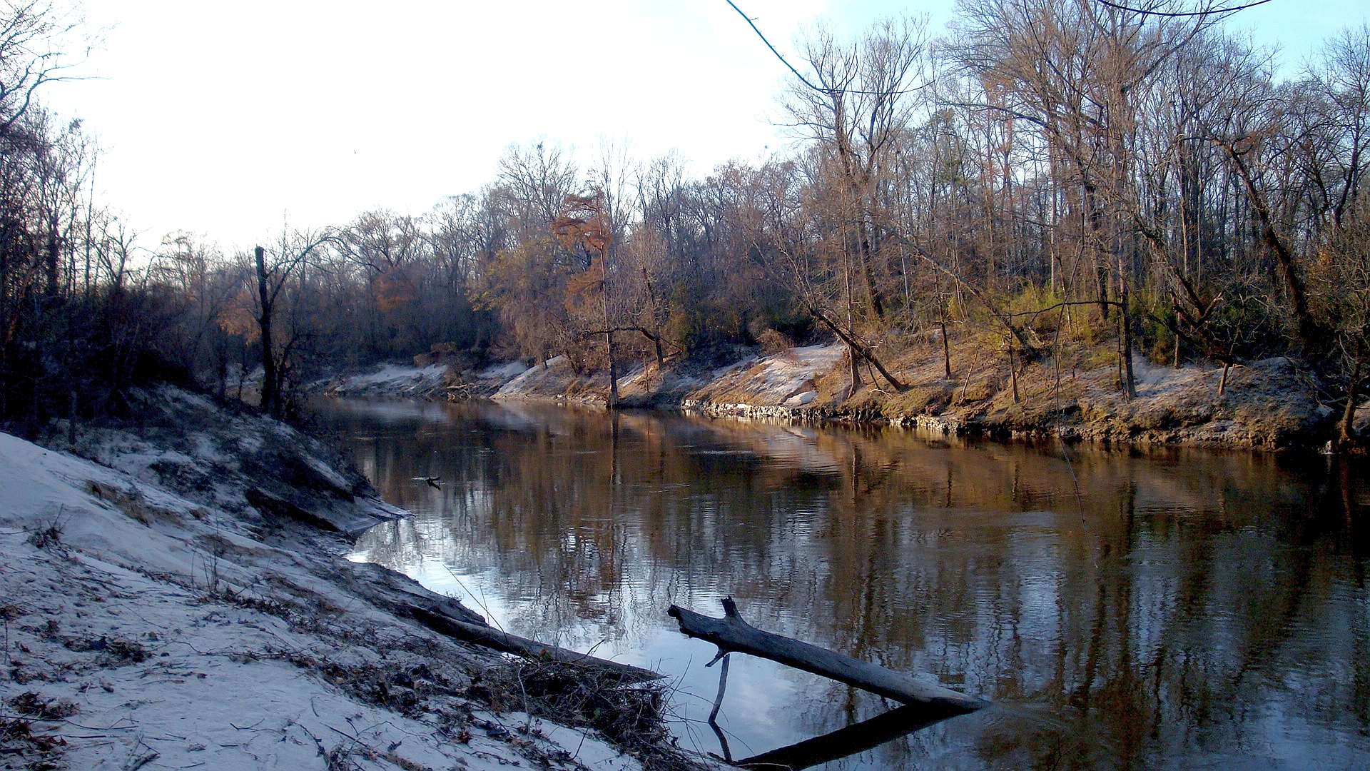 A view of the Pearl River from Rosemary between Terry, MS and Florence, MS.